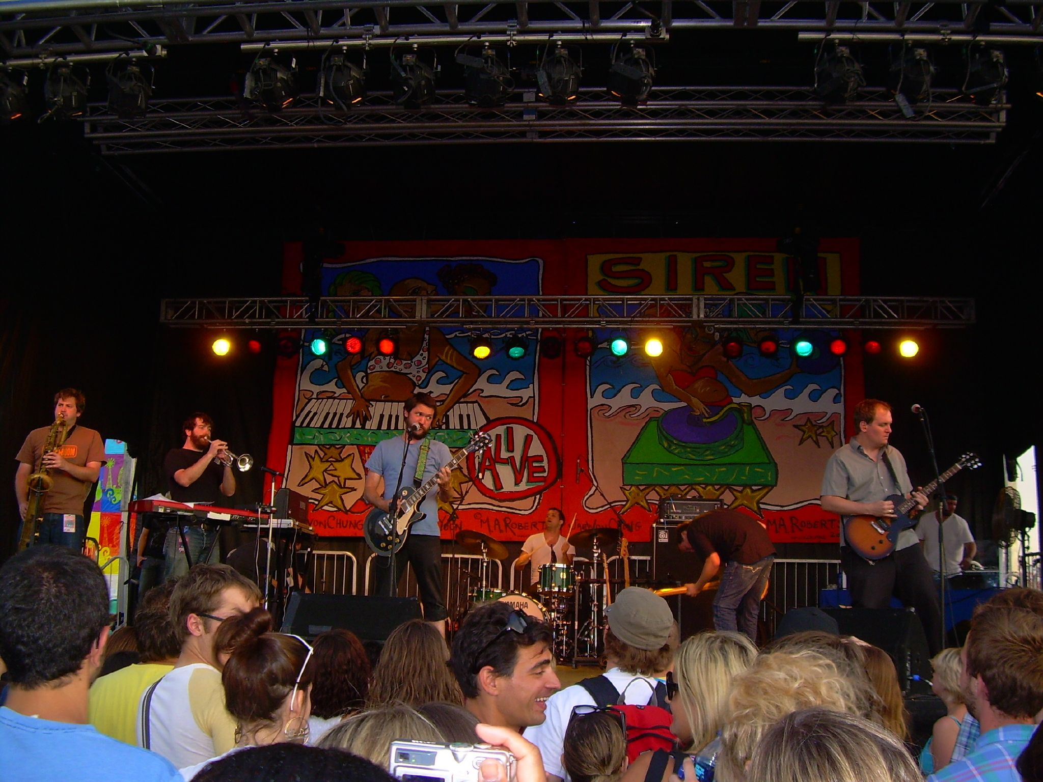 Cursive at Coney Island in 2007.